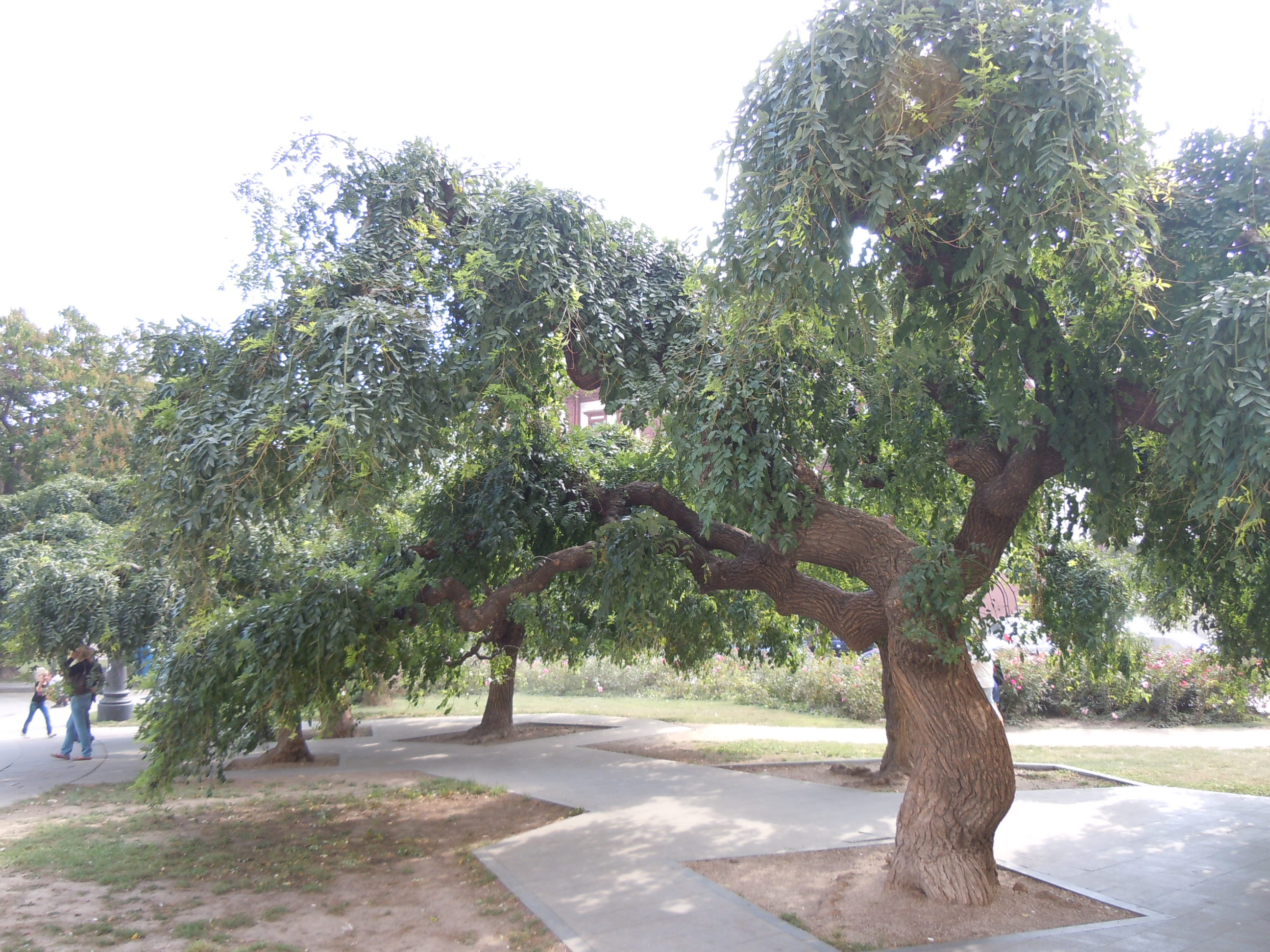 Sofora (Styphnolobium japonicum), decorative form, Odessa, Ukraine